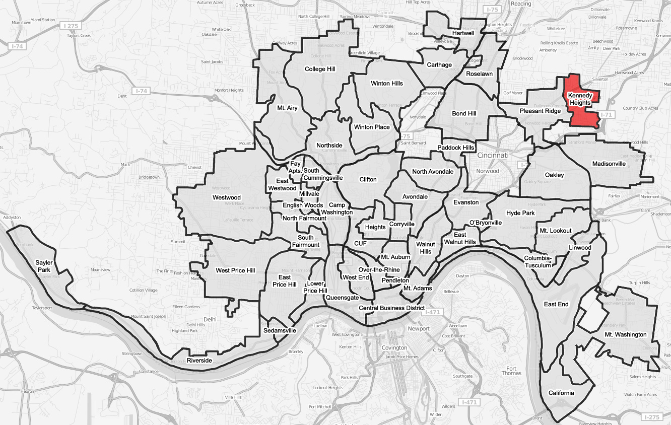 A map of the neighborhood of Kennedy Heights within Cincinnati, Ohio. Neighborhood lines are based on information from This street map is derived from a free map.